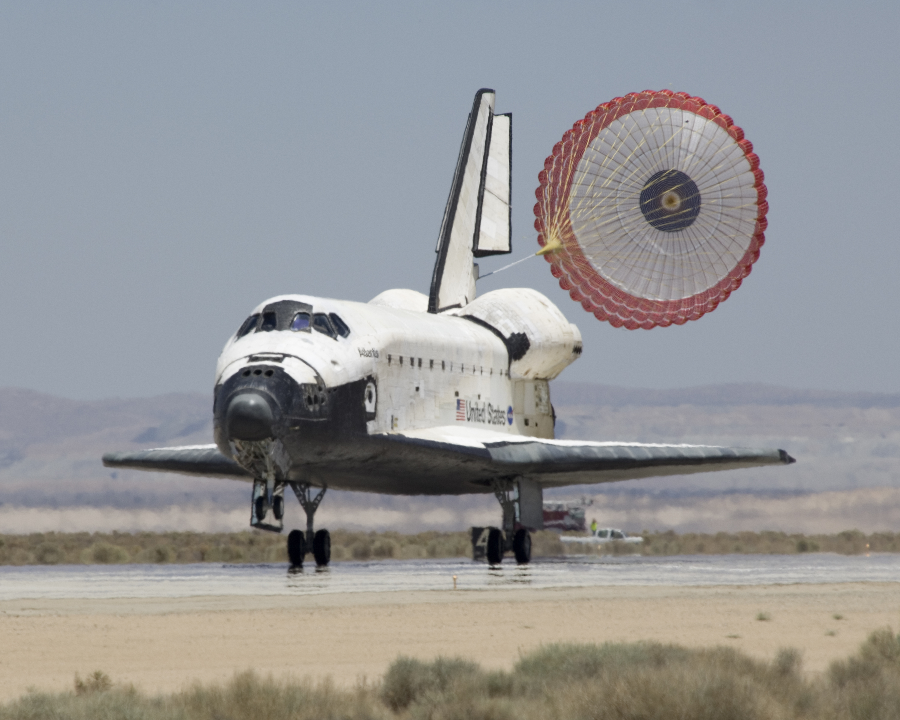 The Space Shuttle Atlantis' drag chute deploys as it rolls out on Runway 22 at Edwards AFB at the conclusion of its 13-day STS-117 mission to the IIS.